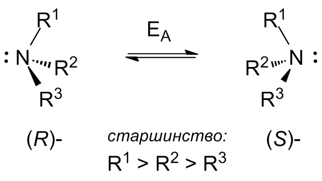 Nitrogen inversion